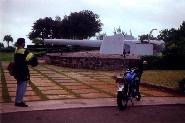 A Breech-Loading, 9.2 inch, Mark X gun (Number 272, built by Vickers) at Fort Victoria, on St. George's Island in Bermuda, circa 1992.